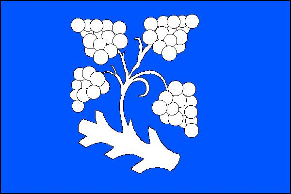 Municipal flag of Mutěnice village, Hodonín District, Czech Republic.